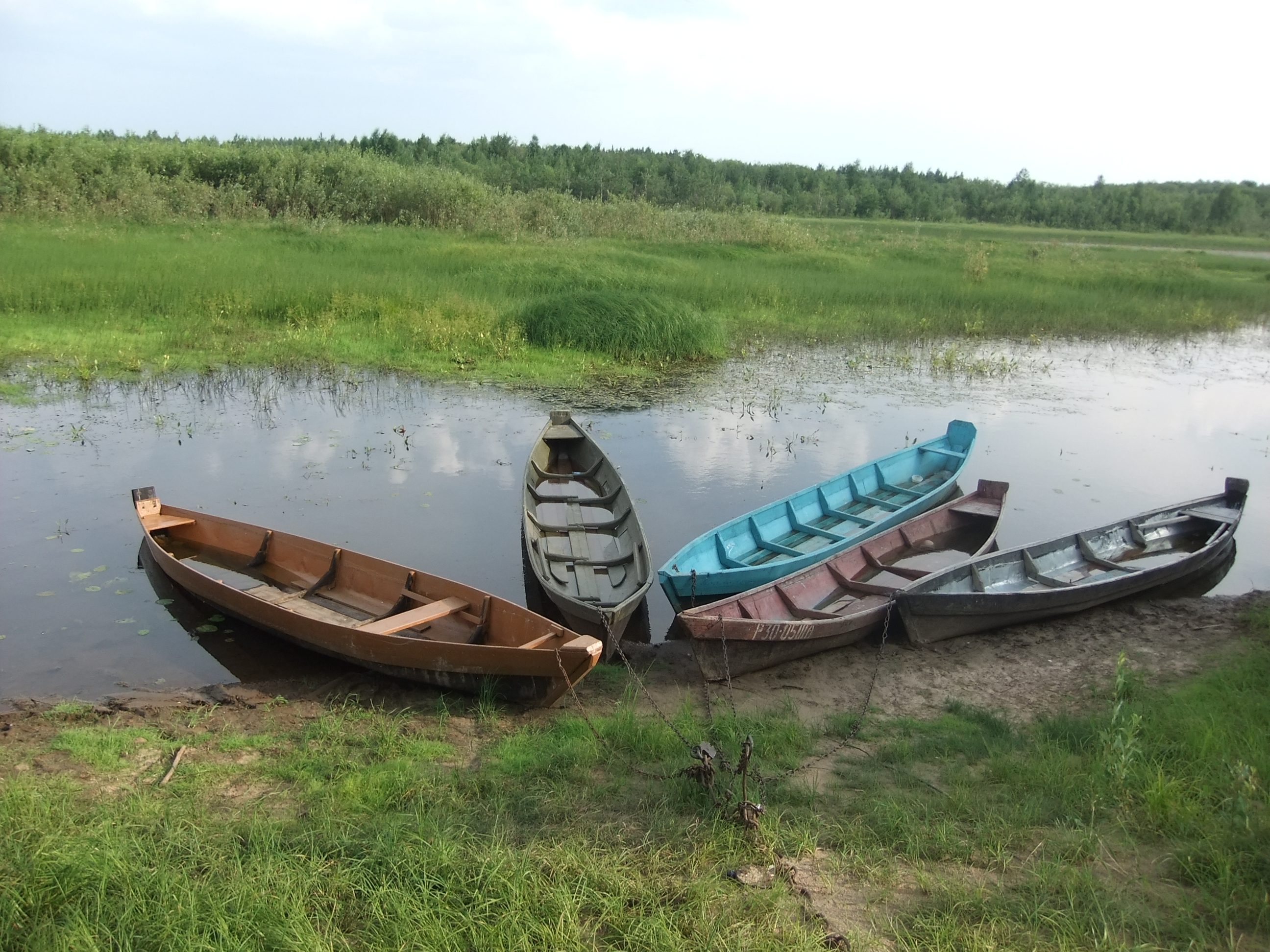 Boats on the bank of Važ Vaška lake. Yortom village, Udora rayon, Komi Republic Коми: Пыжъяс Ёртомын Важ Вашка бокын, Удорский район, Республика Коми